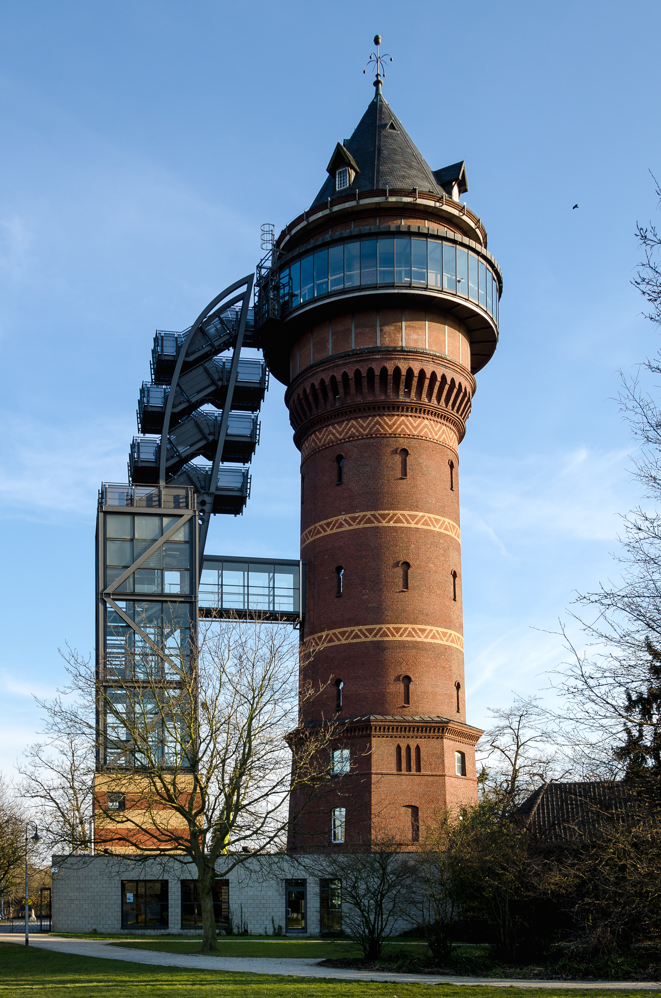 Aquarius, museum of water in Mülheim an der Ruhr